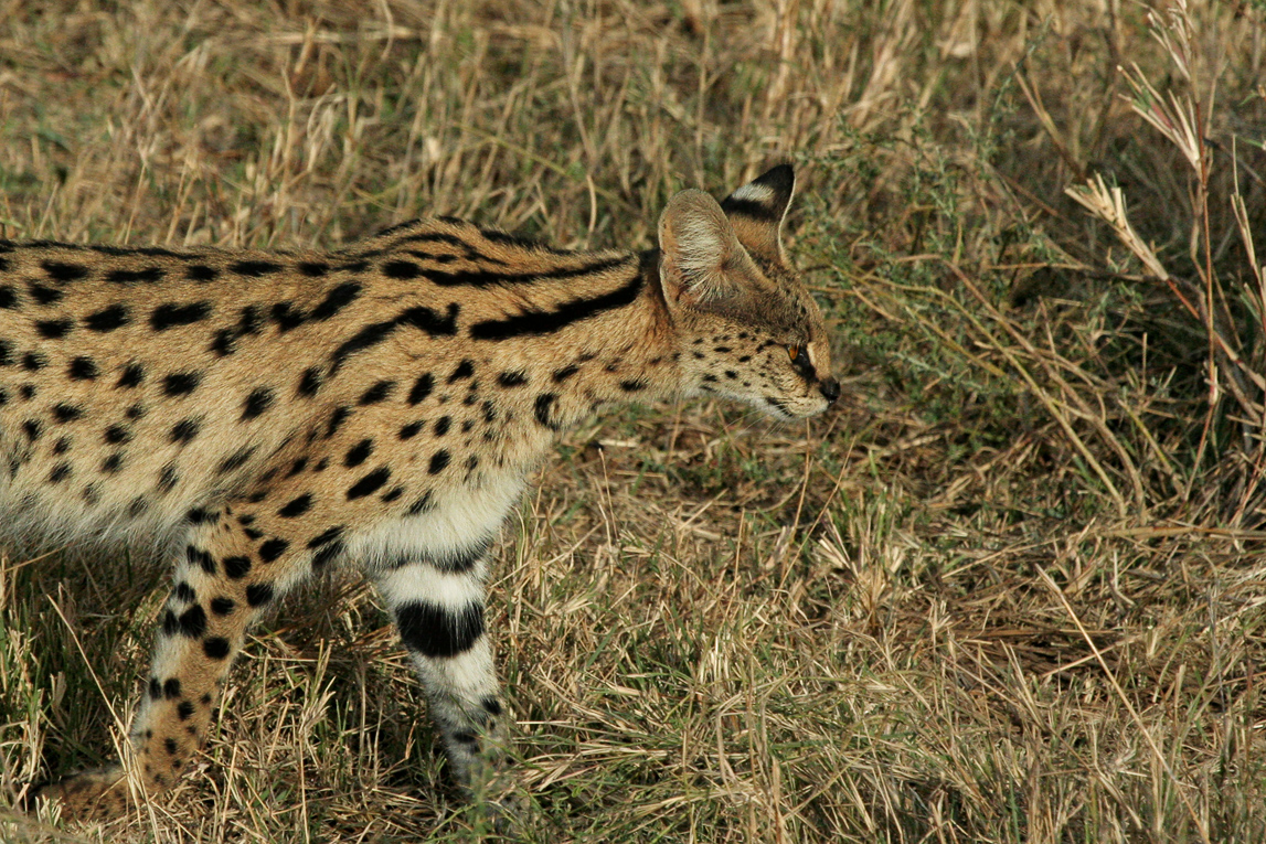 Taken by Schuyler Shepherd (Unununium272). Canon 350D, 100-400mm f/4.5-5.6 L IS